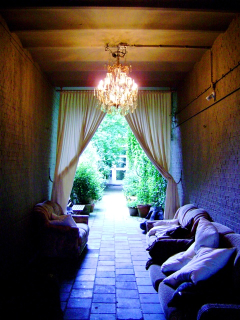 entrance rotterdamscentrumvoortheater